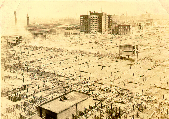 Aftermath of the Chicago Union Stock Yards fire of 1934, not that of December 22 to December 23, 1910.